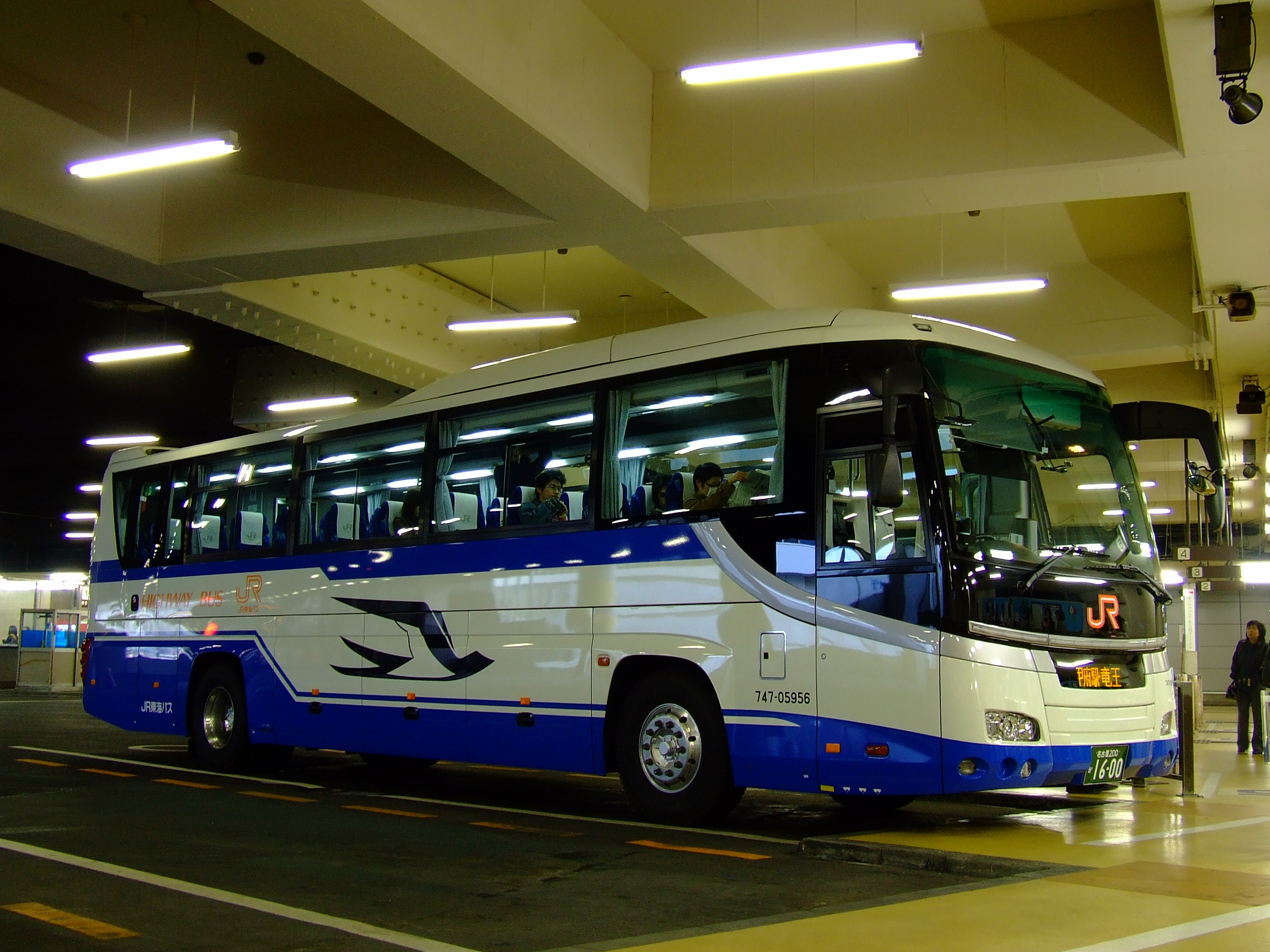 JR東海バス「名古屋ライナー甲府号」 The highway bus "Nagoya Liner Kofu" by JR-Tokai bus